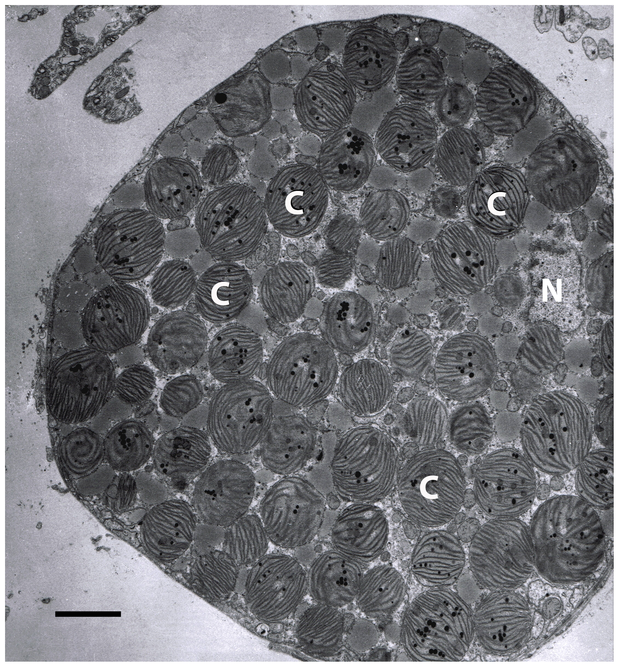 A digestive tubule cell of Elysia crispata, synonym: Elysia clarki, densely packed with sequestered chloroplasts (C) and cell nucleus (N). Electron microscopic image. Scale bar: 3 µm.